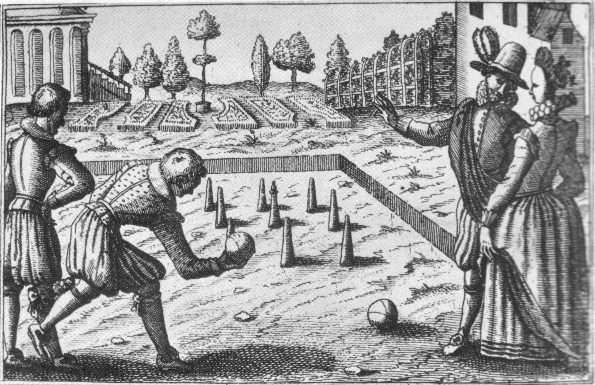 Woodcut of lawn bowling